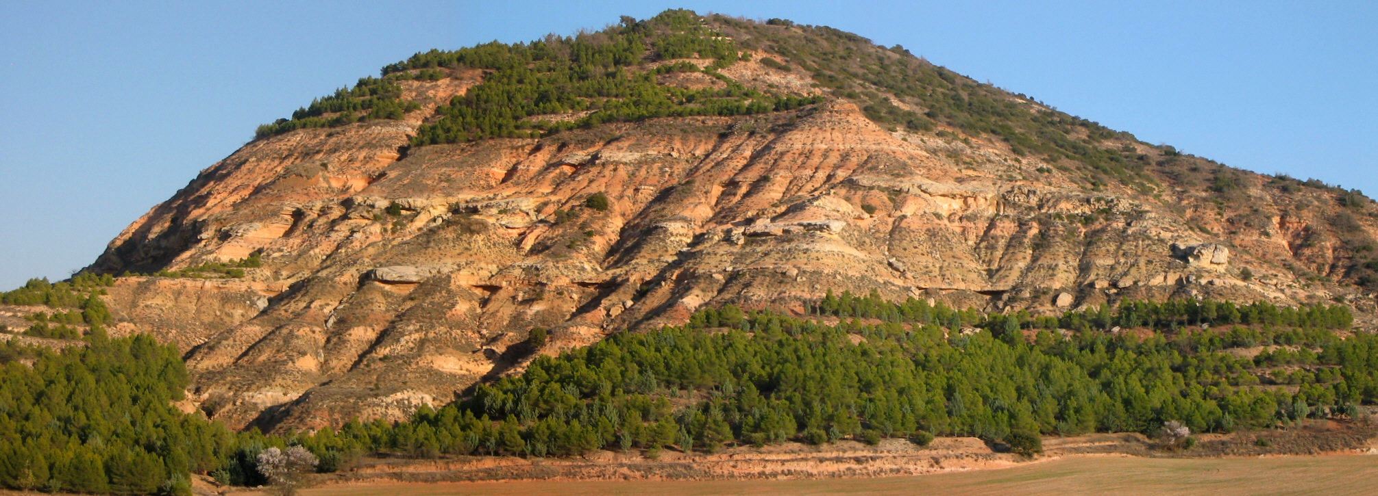 Fluvial stratigraphy: Alluvial plain and channel deposits. Miocene of Caracenilla, Cuenca, Spain